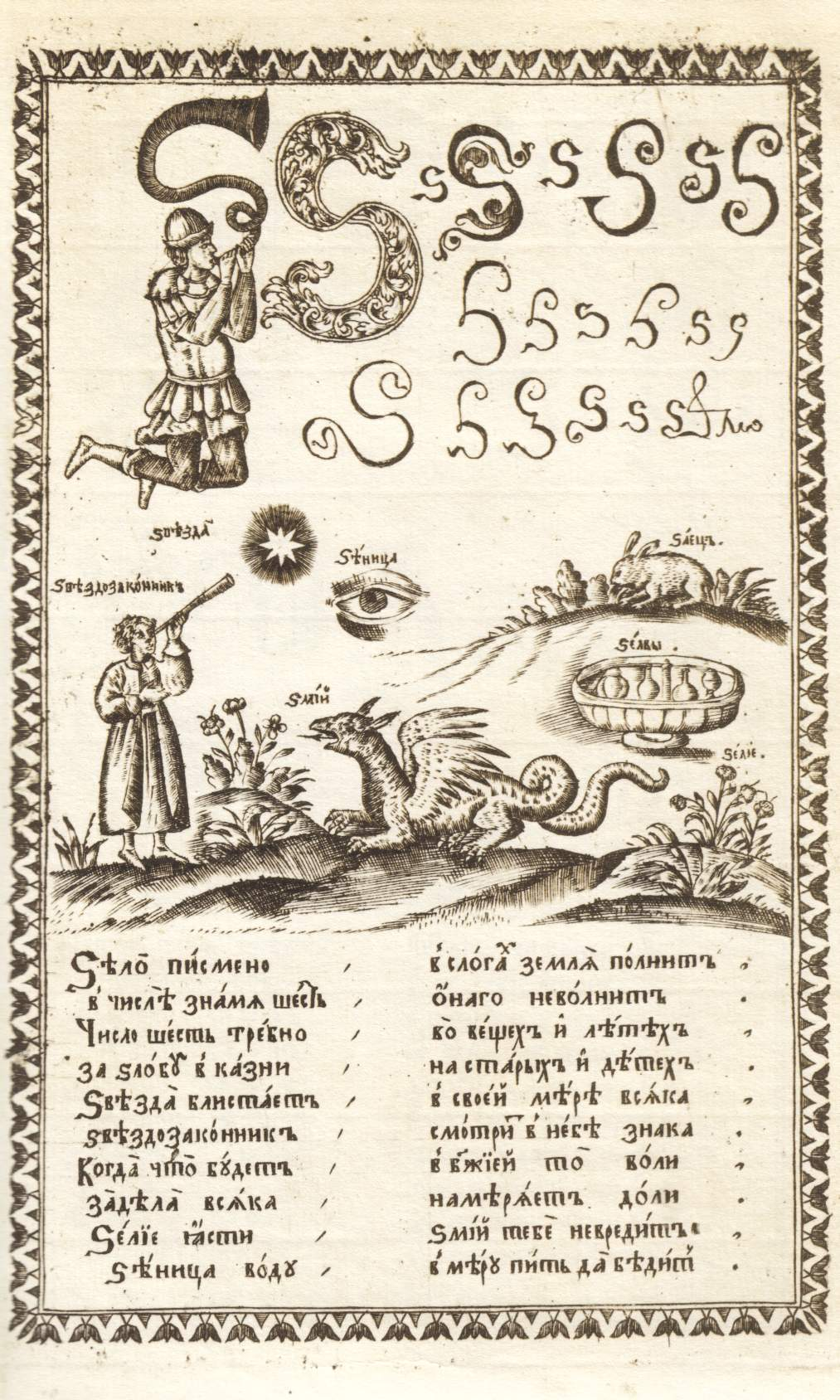 Karion Istomin's alphabet book, letter Ѕ